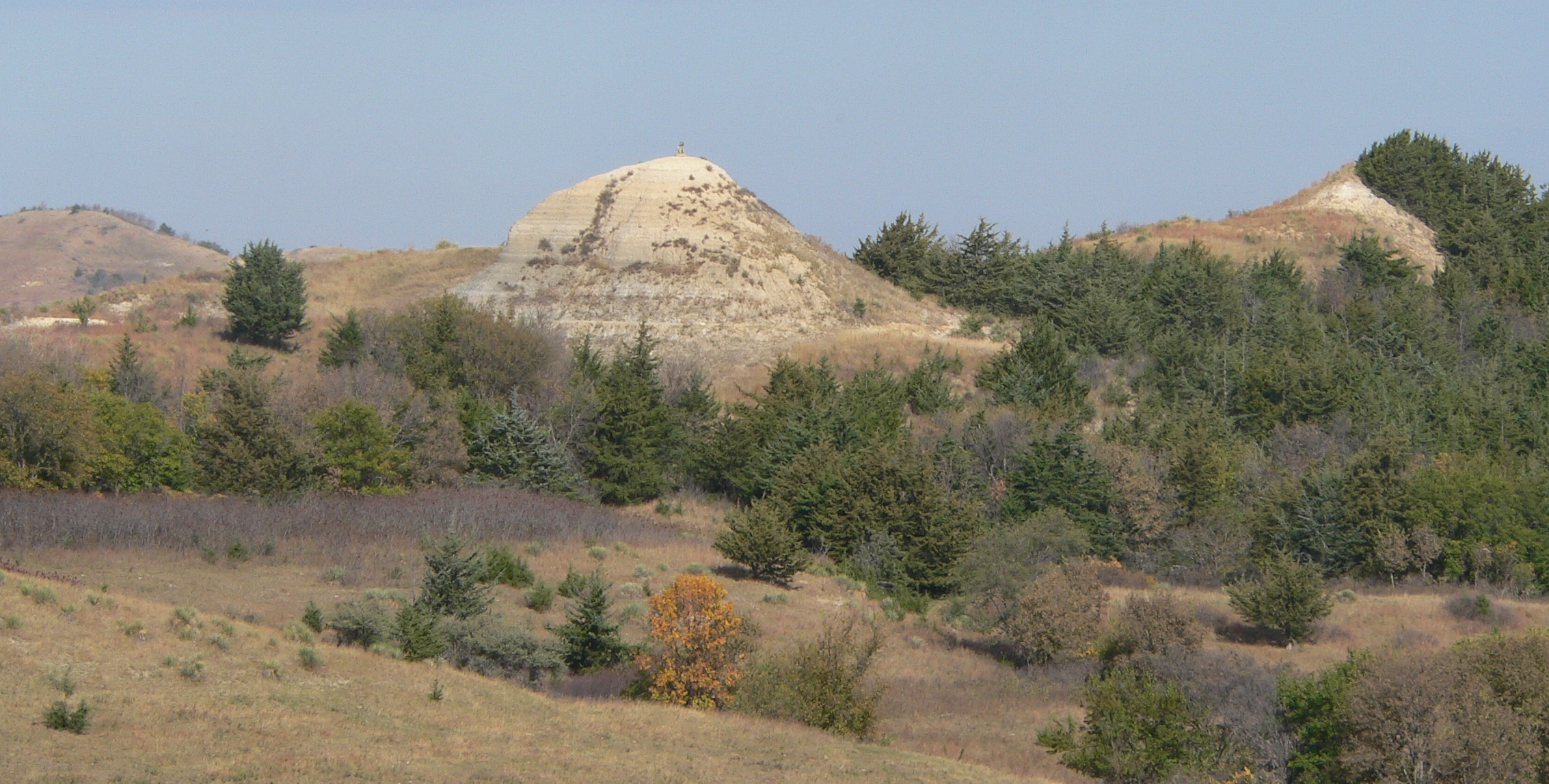 The Tower, a landform north of Lynch in Boyd County, Nebraska; seen from the southeast. It is listed in the National Register of Historic Places because of its association with the Lewis and Clark Expedition.